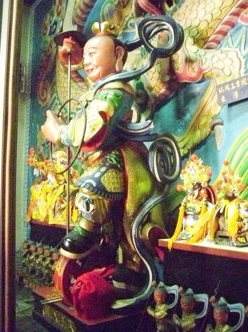 Bazhangli Guanĝing Temple, Xitun District, Taichung.中文（台灣）: 八張犁廣興宮-位於臺中市西屯區廣福里廣福路230號。